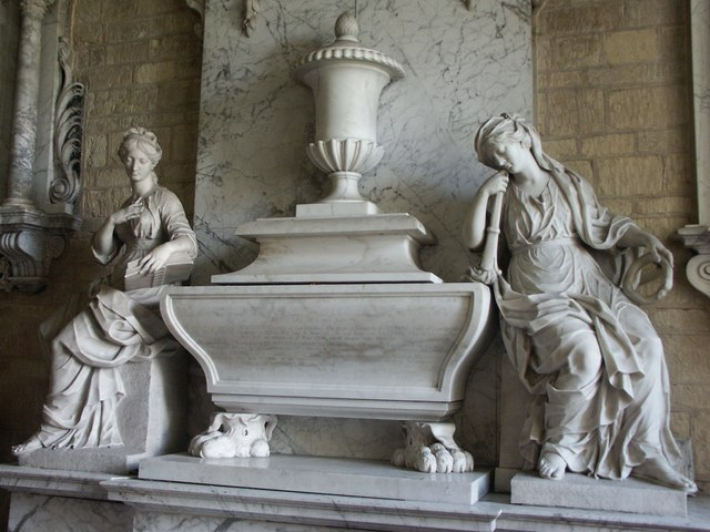 Interior of St Michael & All Angels, Heydour